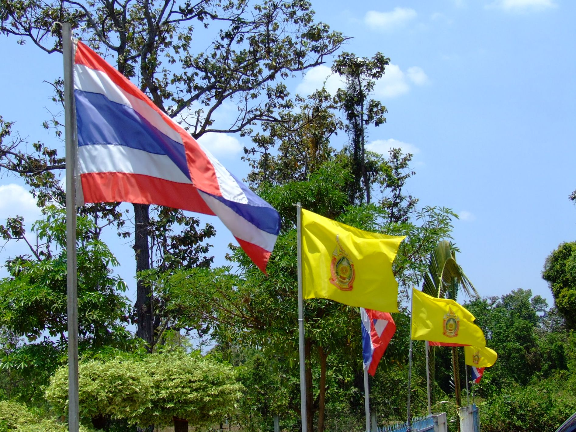 Decoration of the flag of Thailand with th flag of the Celebrations on the Auspicious Occasion of His Majesty the King’s 80th Birthday Anniversary at a Thai governmental office.